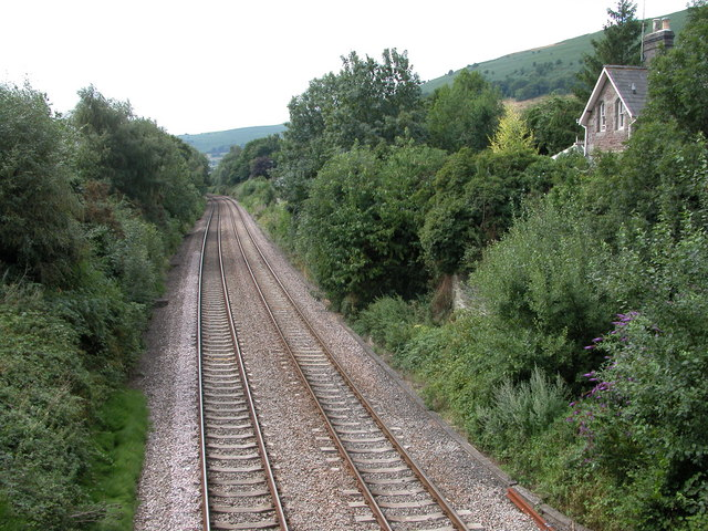 Site of Llanvihangel Station. Viewed from the railway bridge, here the Hereford to Abergavenny railway passes the site of the former station at Llanvihangel.